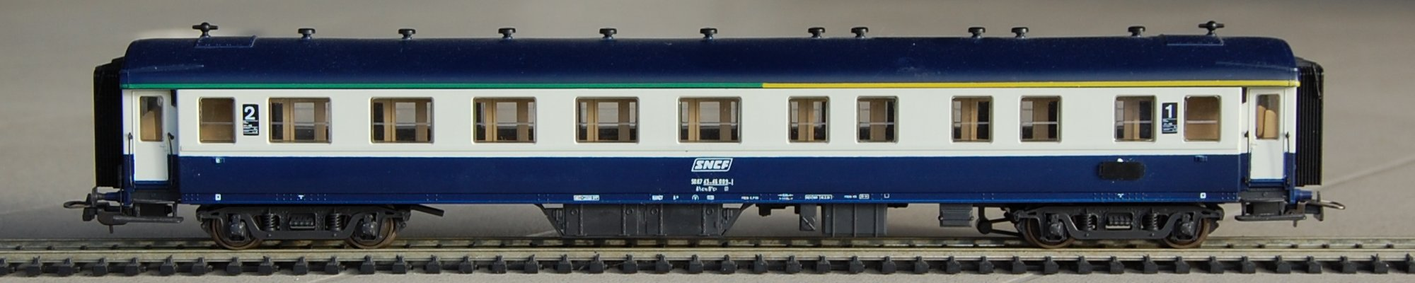 Couchette car Est A5/2c5/2B5c5 of the SNCF in TEN colours. Scale model by Roco